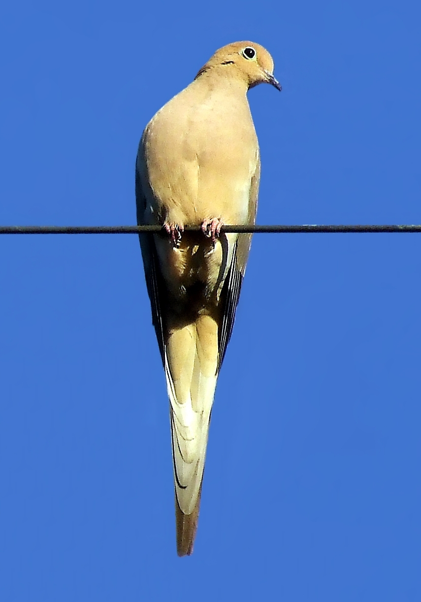 Mourning Dove on a wire. Uploaded by User:Althepal. Some rights reserved. Photo by Althepal